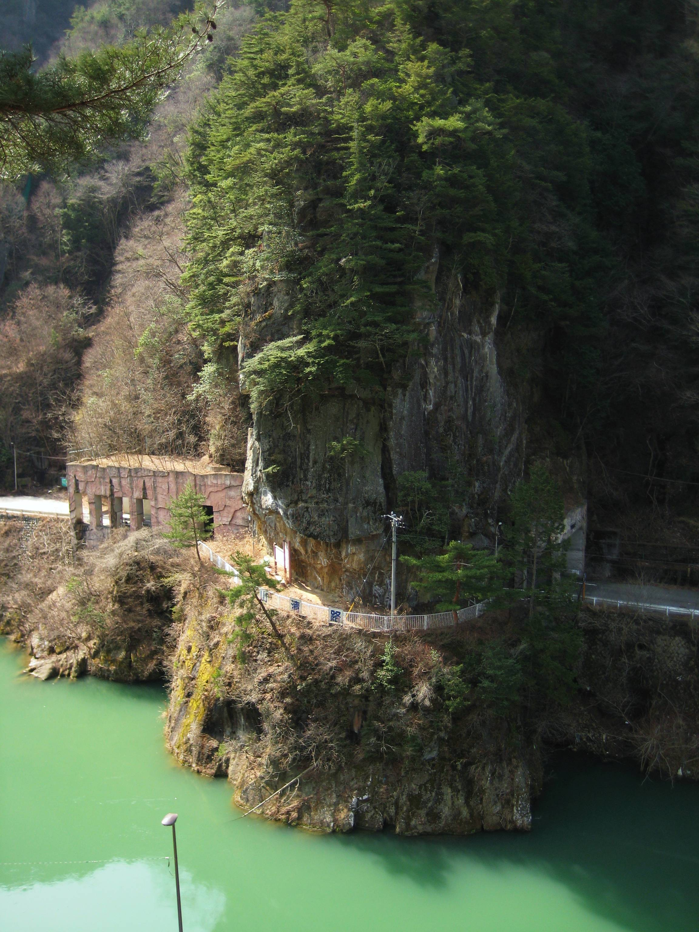 Sanseiji tunnel.